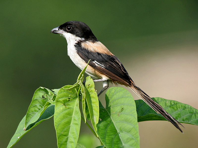 Long-tailed Shrike (Lanius schach) in Kolkata, West Bengal, India.